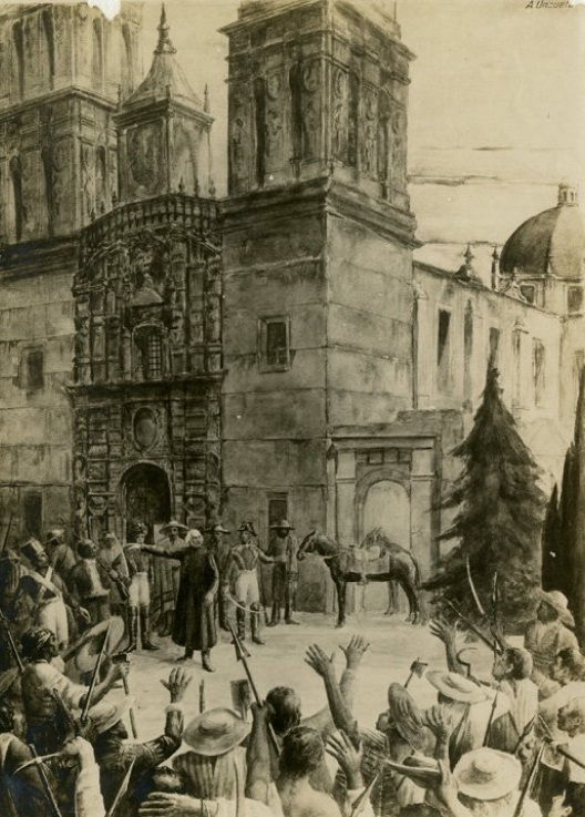 Miguel Hidalgo y Costilla before the Cry of Dolores, painting by Unzueta. Ca. 1900. Fototeca Nacional.